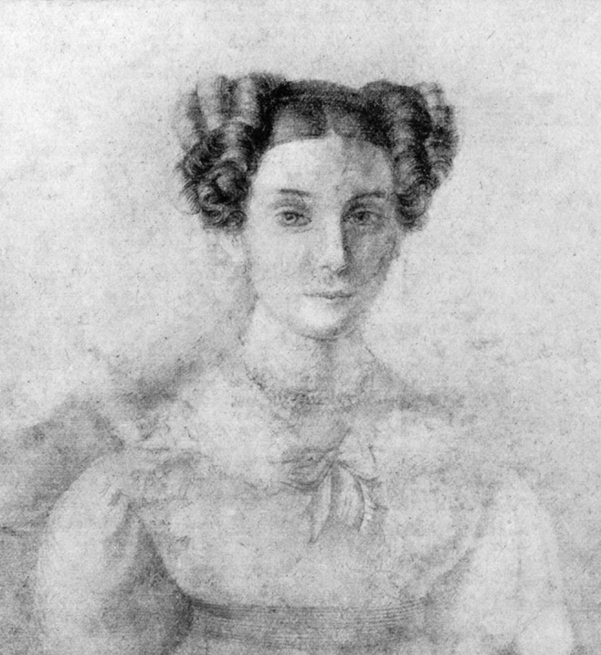 Julie Purkyně-Rudolphi (1800-1835), Daughter of Karl Asmund Rudolphi, wife of Jan Evangelista Purkyně. Drawing of unknown author. Česky: Julie Purkyně-Rudolphi (1800-1835), dcera Karla Asmunda Rudolphi, manželka Jana Evangelisty Purkyně. Kresba neznámého autora.